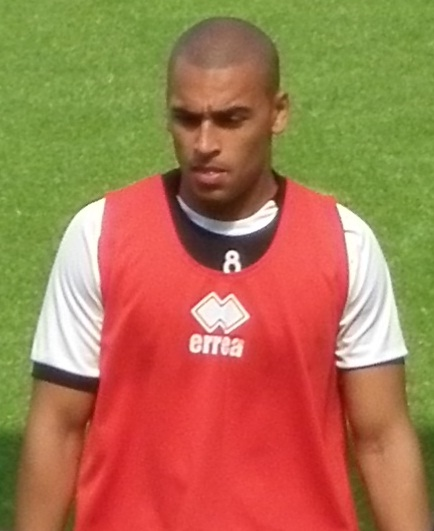 James Vaughan at Norwich City's open training session on 9 August 2012.